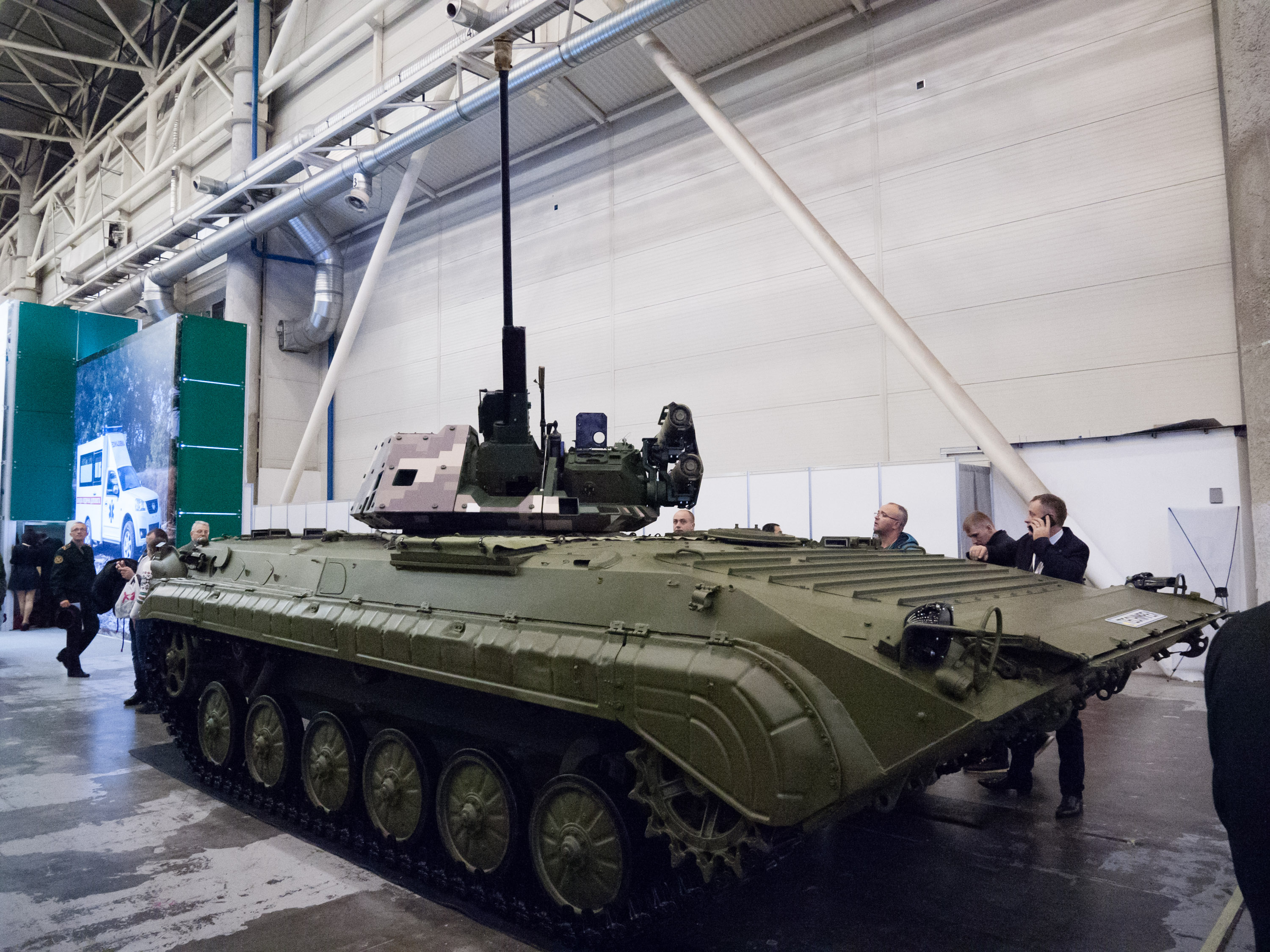 BMP-1 with Turra 30 fighting module